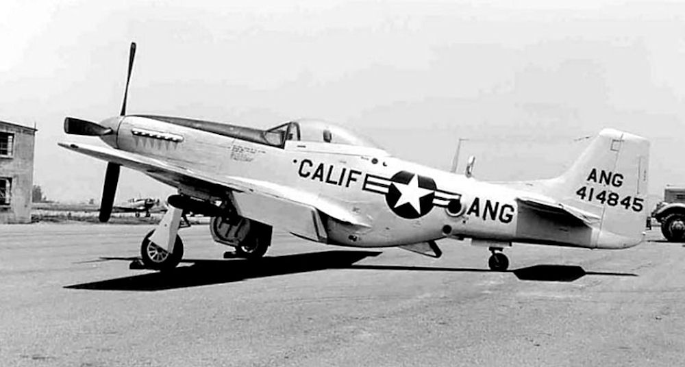 California ANG - North American F-6D-10-NA Mustang 44-14845